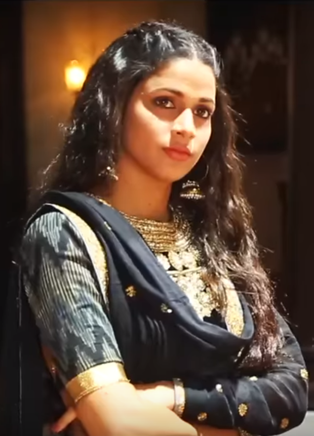 lavanya tripati from the sets of mister